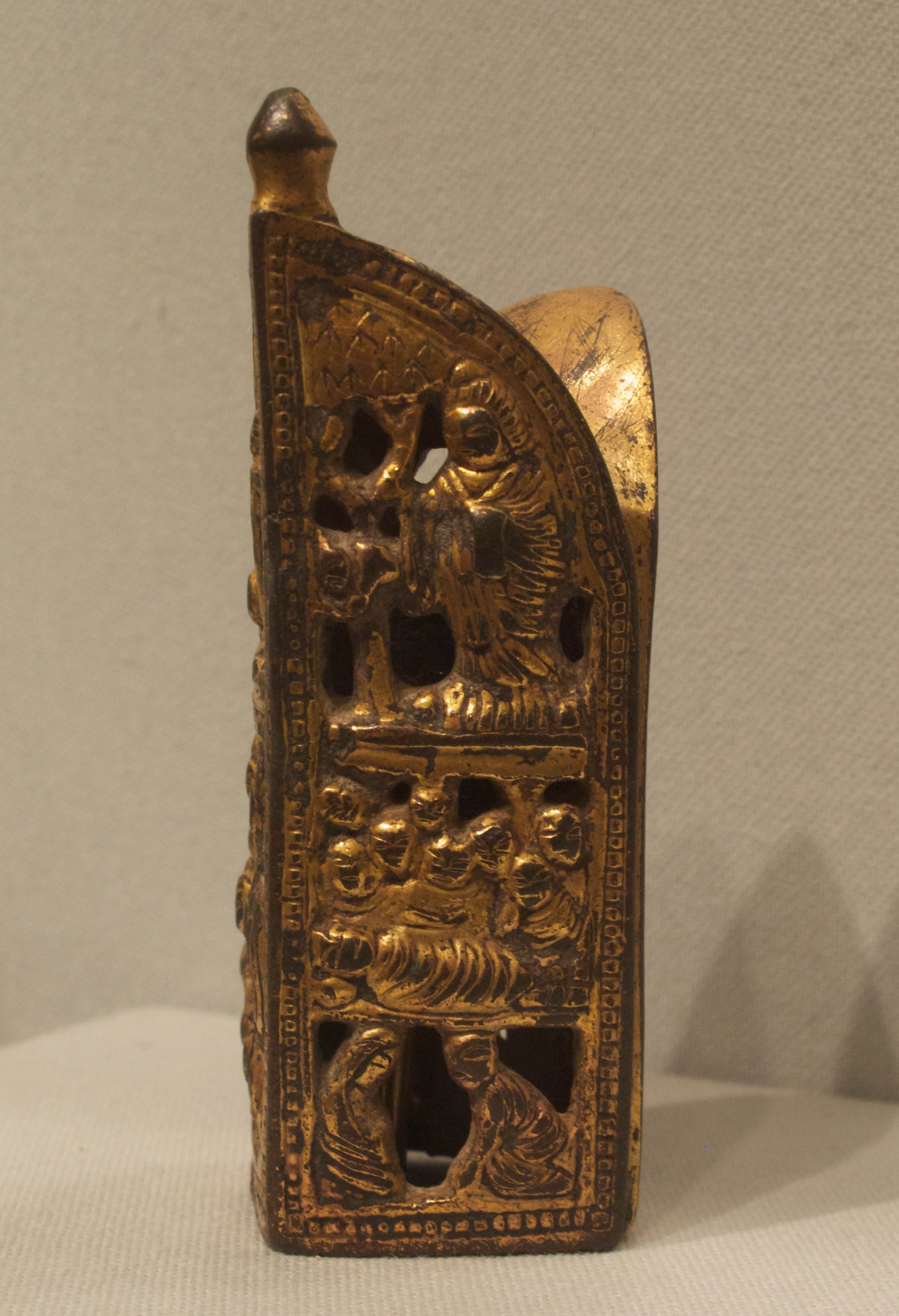 Miniature shrine with scenes of the life of the Buddha. Approx. 200 - 300. China, Three Kingdoms period (221 - 419). Gilt bronze, H. 3 1/8 in x W. 1 1/2 in x D. 1 3/8 in, H. 8 cm x W. 3.8 cm x D. 3.5 cm. The Avery Brundage Collection, B60B745. Asian Art Museum, San Francisco